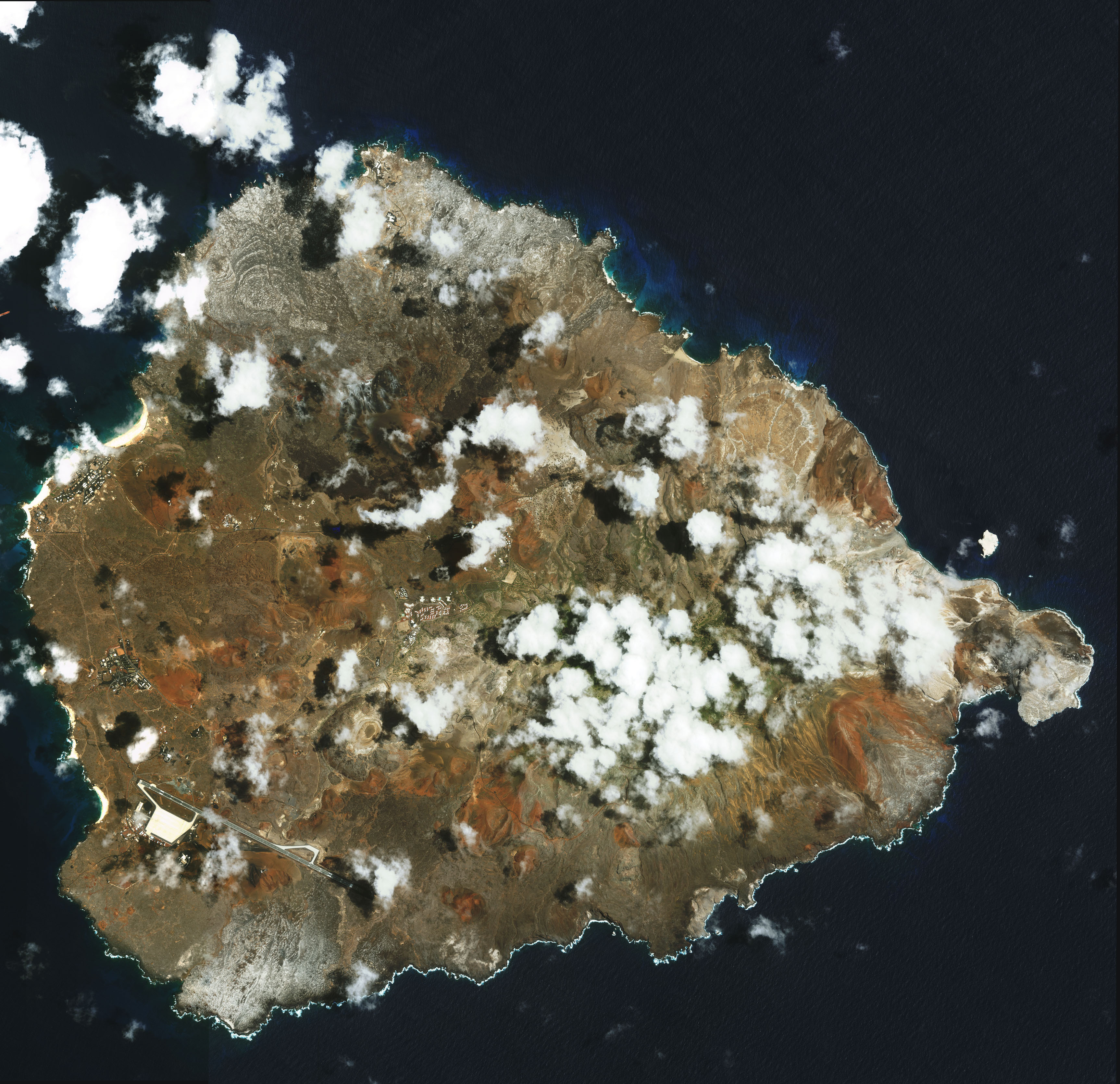 In the southern Atlantic Ocean roughly midway between central South America and central Africa, sits Ascension Island. A small, rocky, volcanic outcrop covered in many places by lava flows and cinder cones of dormant volcanoes, the island sits just west of the Mid-Atlantic Ridge. In this amazingly detailed image from the Ikonos satellite on February 24, 2003, marbled-looking lava flows can be seen dominating the northwest coast, with smaller flows visible on the southwest coast below the island's Wideawake Airfield, as well as on the southeast coast. Northeast of the airstrip, a large cinder cone is visible, its dark brown center fading to tan is a series of pale rings. This crater, the island's largest, is called Devil's Riding School. Crisp, white surf breaks along the shores. The rugged island is barren in many places, and has no indigenous human population. Instead the residents of the island are there because of Ascension's main industry: communications. The island has a long history as a communications hub for telephone and radio communications and as a base for satellite tracking stations, including a NASA station built in the 1960s that no longer operates. The European Space Agency operates a tracking station for its Ariane spacecrafts on the eastern side of the island. Ascension Island is one of, if not the most important breeding grounds for seabirds in the tropical Atlantic Ocean. The population of seabirds has been under threat since the first humans sailed up to the island in the 1500s. The ships accidentally introduced black rats, which overran the island, until feral cats were introduced to curb the rat population. The feral cats have decimated the bird populations, and in fact, are probably responsible for the extinction of two of the islands native land birds. A restoration project is underway to control the cat population and revive the seabirds. NASA Identifier: Ascension_Island